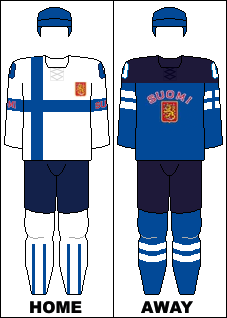 The home and away jerseys of the Finnish national ice hockey team with the Finnish coat of arms in the middle, as used at the 2014 Winter Olympics in Sochi.